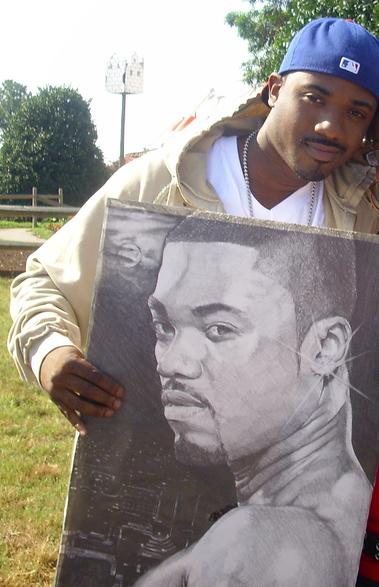 Ray J and Princess (cropped out)